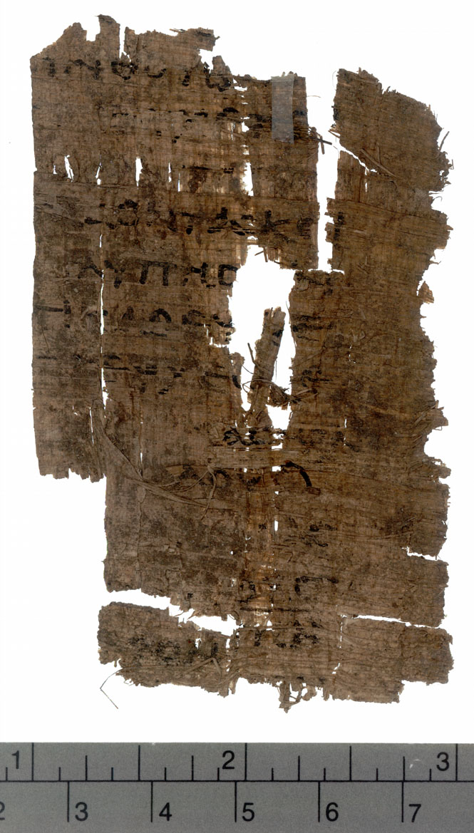 Papyrus 69 or P. Oxy 2383